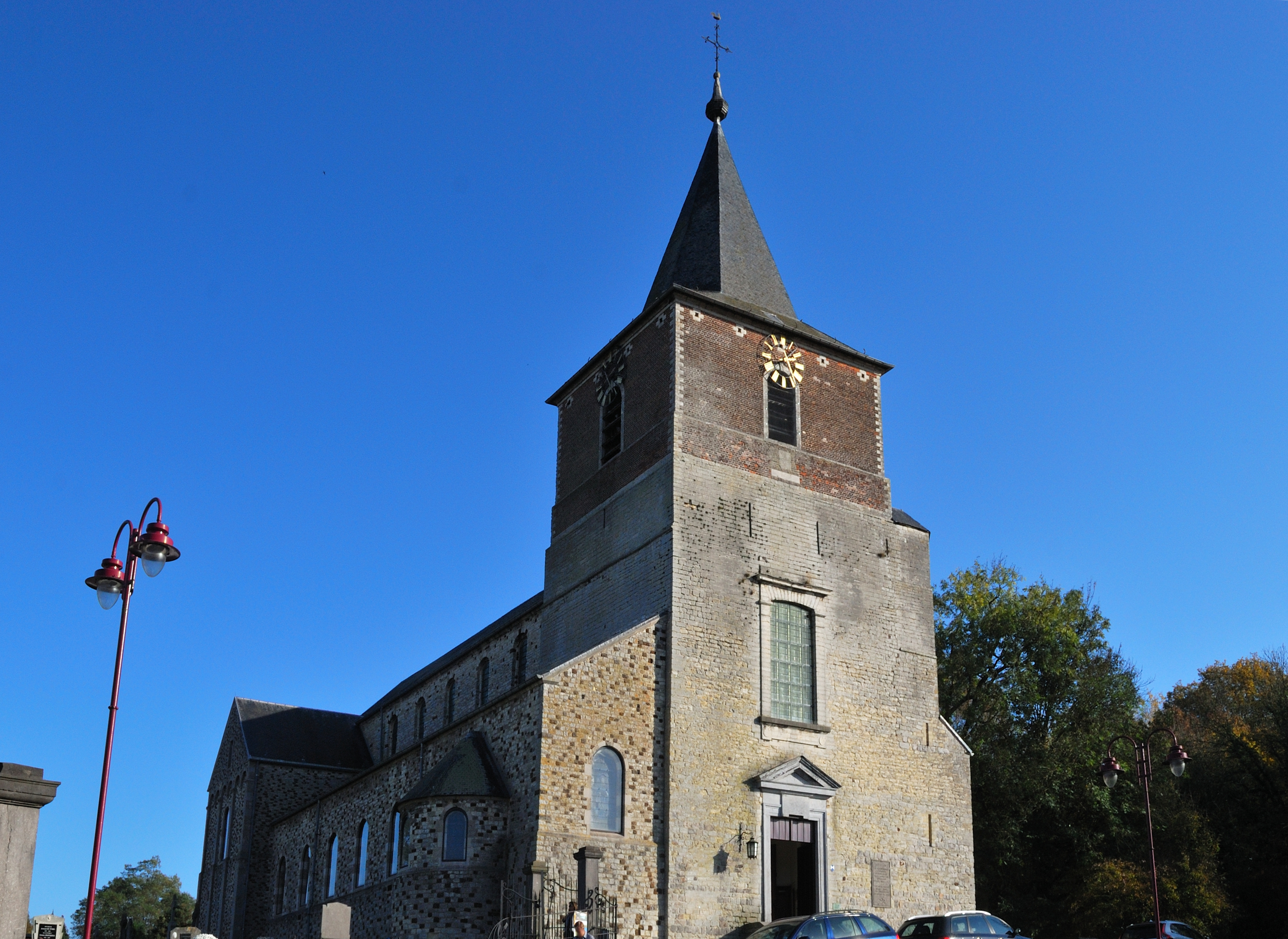 West and North faces of the church of Saint Hilary at Bierbeek, Belgium. Nikon D60 f=20mm f/10 at 1/400s ISO 200. Processed using Nikon ViewNX 2.1.2 and GIMP 2.6.11